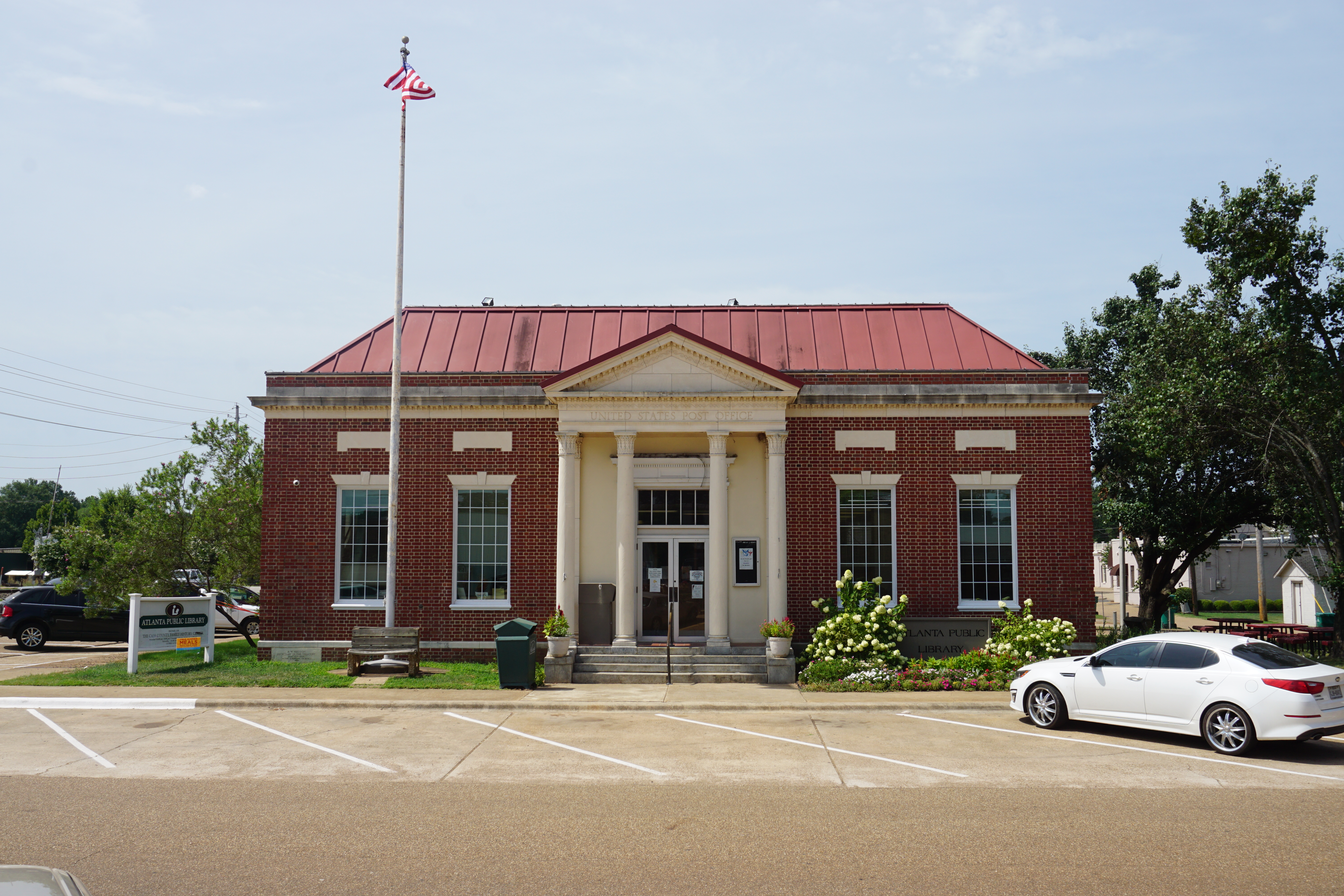 The Atlanta Public Library in Atlanta, Texas (United States).